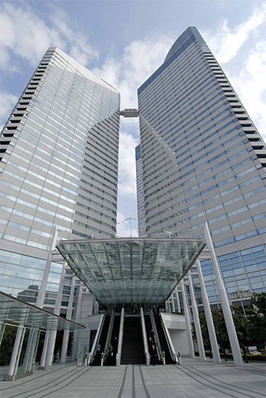 Bellsystem24